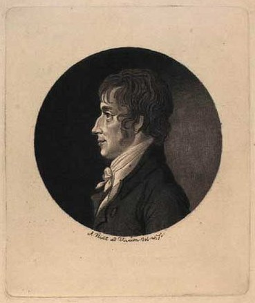 Johan Friedrich Prehn (1771-1833), Danish civil servant